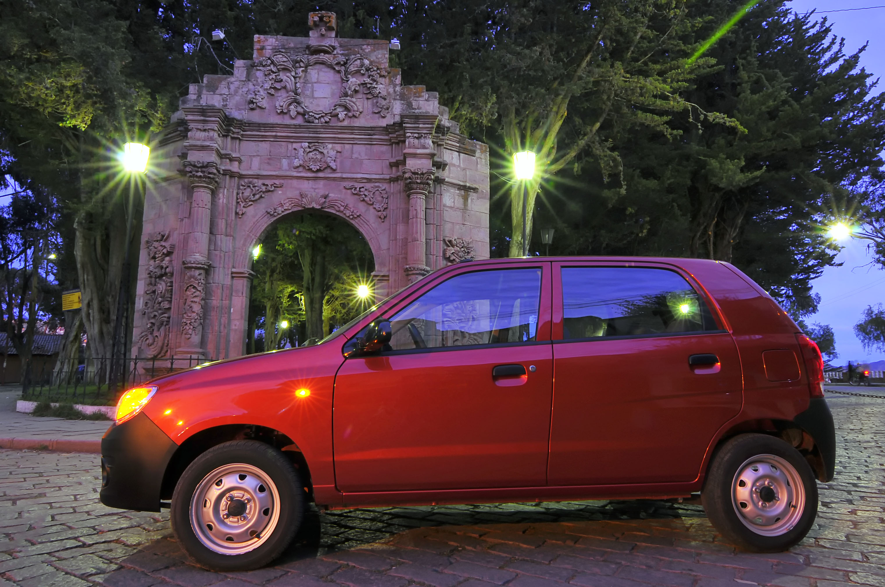 A side photography of the Maruti Suzuki Alto K10